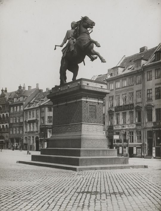 The Absalon statue on Højbro Plads in Copenhagen, Denmark